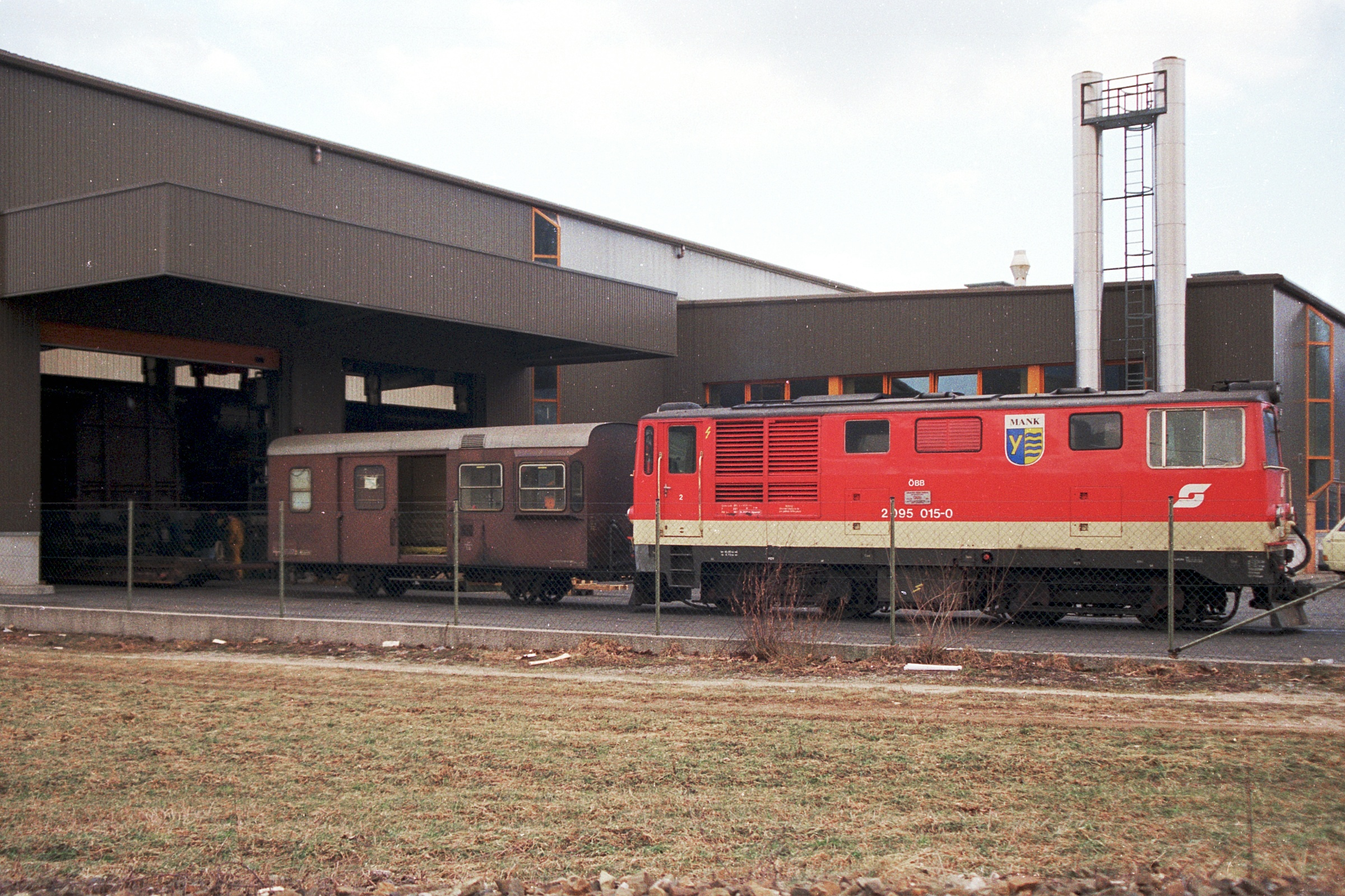 2095 015-0 pushing a freight train into a metal products factory in Gresten.